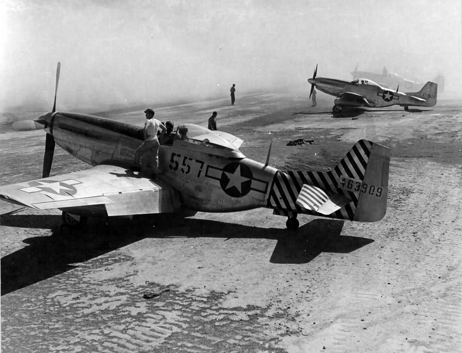 P-51D 557 44-63909 of the 458th Fighter Squadron 506th Fighter Group Iwo Jima 1945